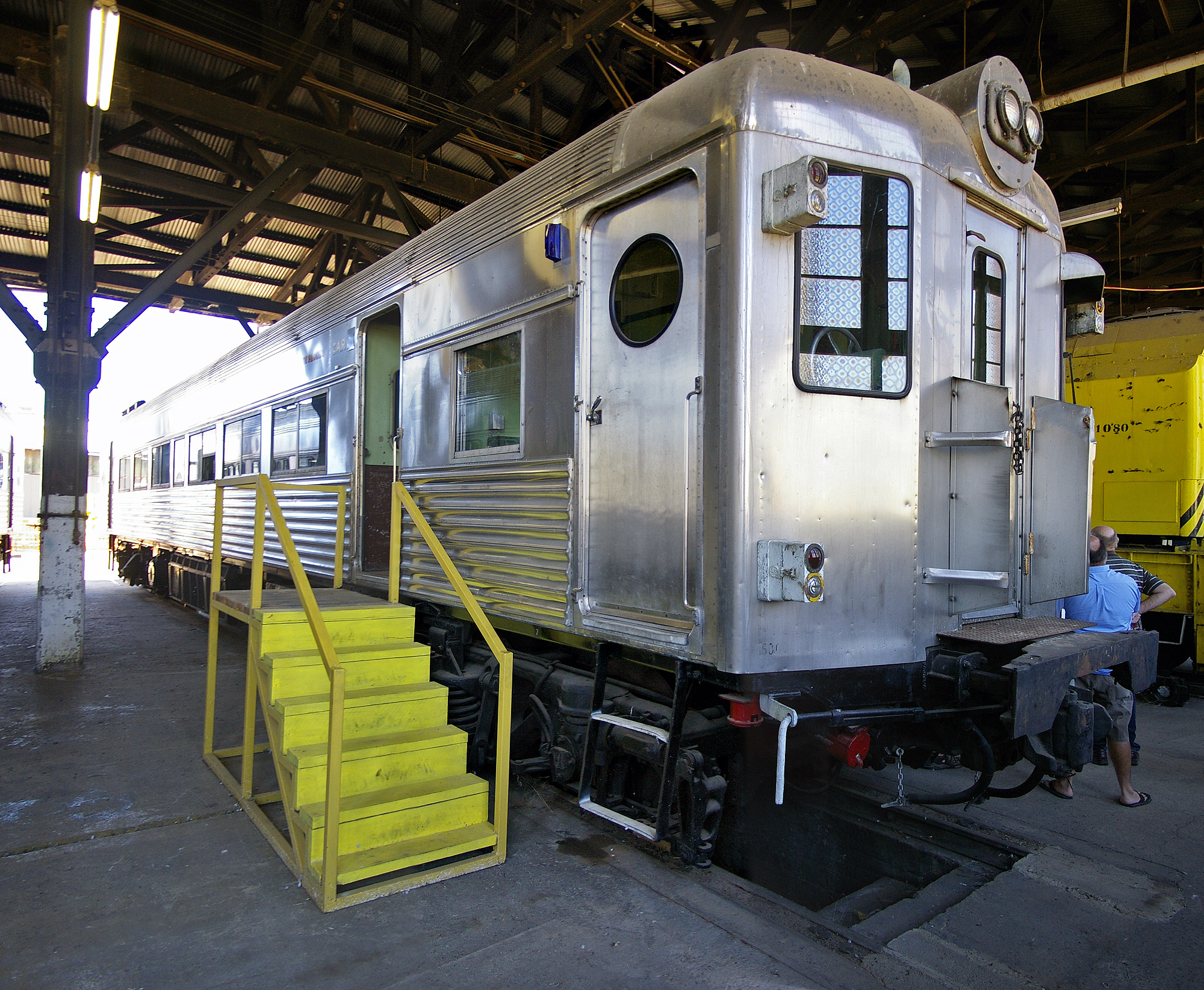 NSW U set motor car (CF 5003) at the Junee Roundhouse Museum.